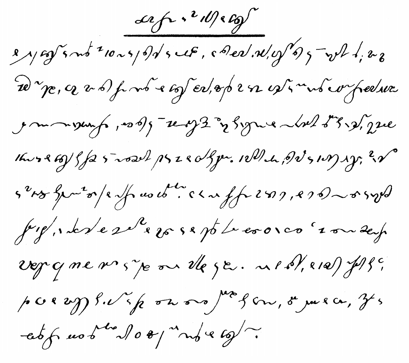 Text written in German Gabelsberger shorthand system by Franz Xaver Gabelsberger himself.